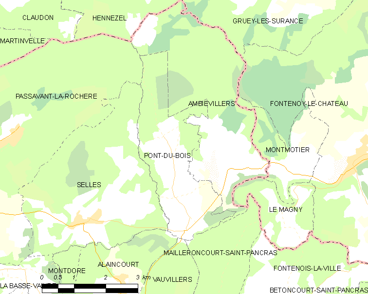 Map of French municipality